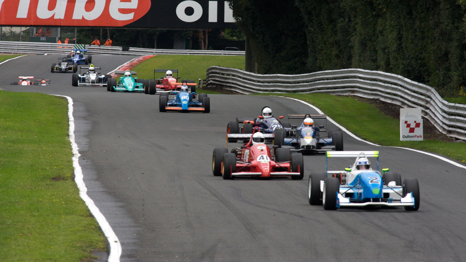 Monoposto Racing Club photograph